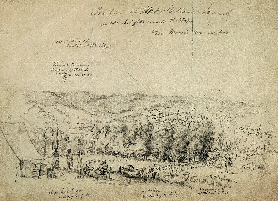 Sketch, "Position of McClellan's advance on the heights round Philippi [West Virginia, USA]. Gen. Morris Commanding" (June 1861).